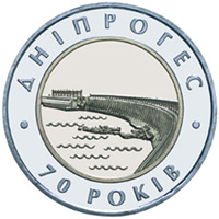 Coin of Ukraine